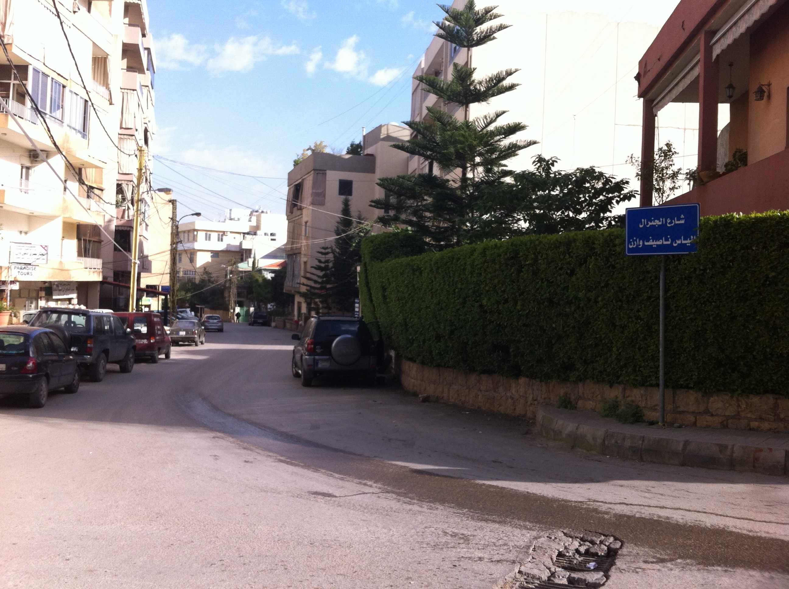 General Wessin Street, Dekwaneh, Lebanon picture taken in Feb 2012